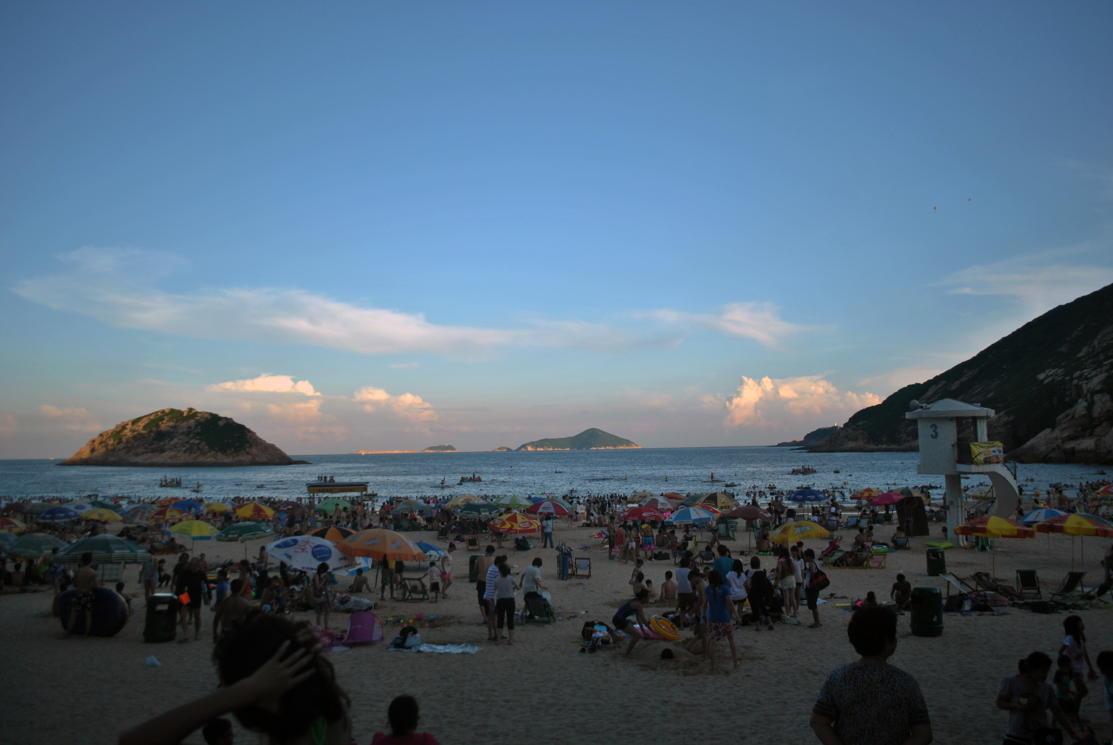 Shek O is a beachside village located on the south-eastern part of Hong Kong Island, in Hong Kong. Prior to the Wikimanía 2013 party.